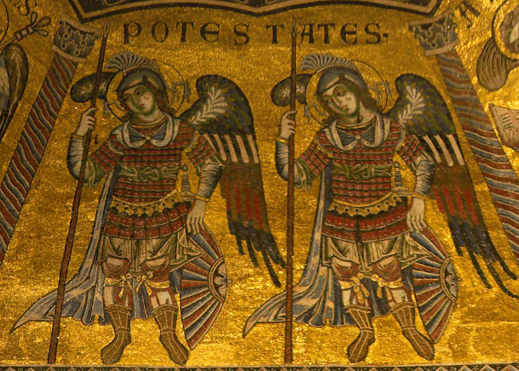 The mosaic ceiling of the Baptistery San Giovanni in Florece in total view (Stitched from 20 images, exif from one image)